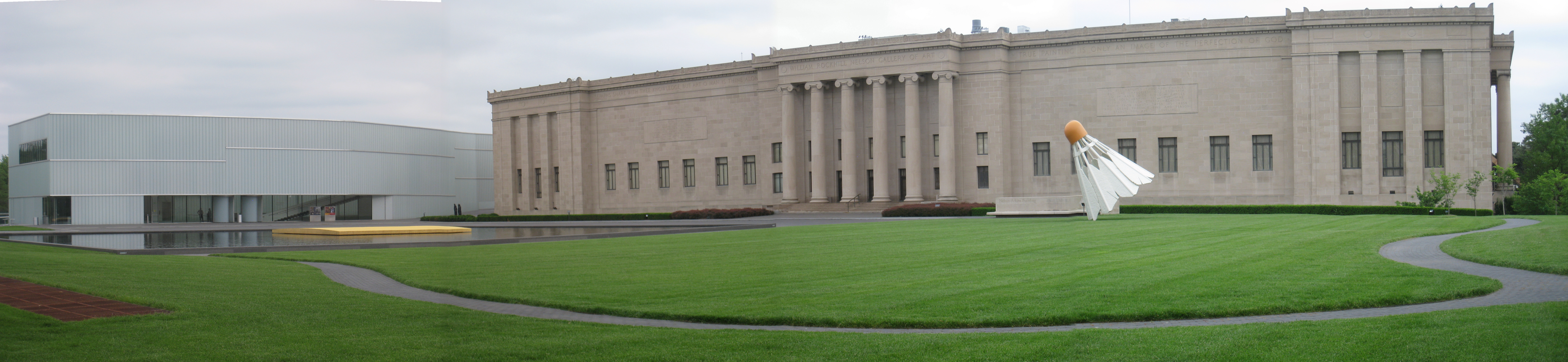 Panorama of front facades, Nelson-Atkins Museum of Art, Kansas City, Missouri, USA.